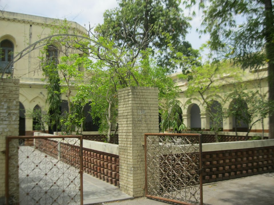 Entry to School Building